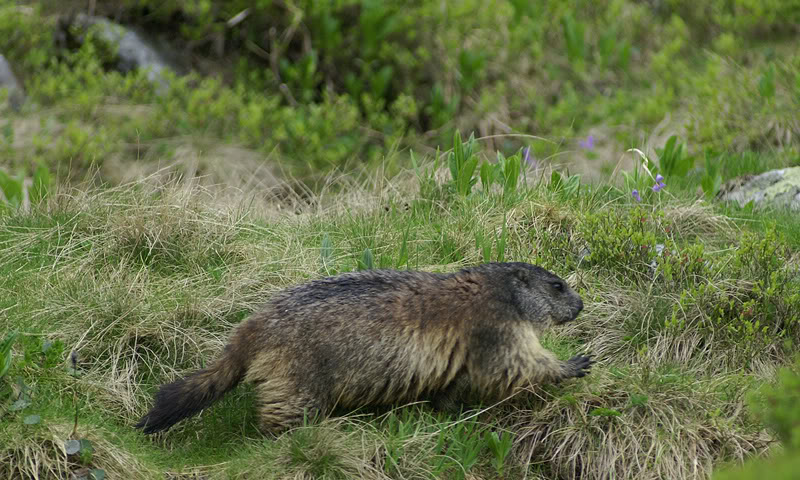 M. marmota latirostris over Štvrté Rohačske pleso - in western, (slovak) part of Tatra Mountains